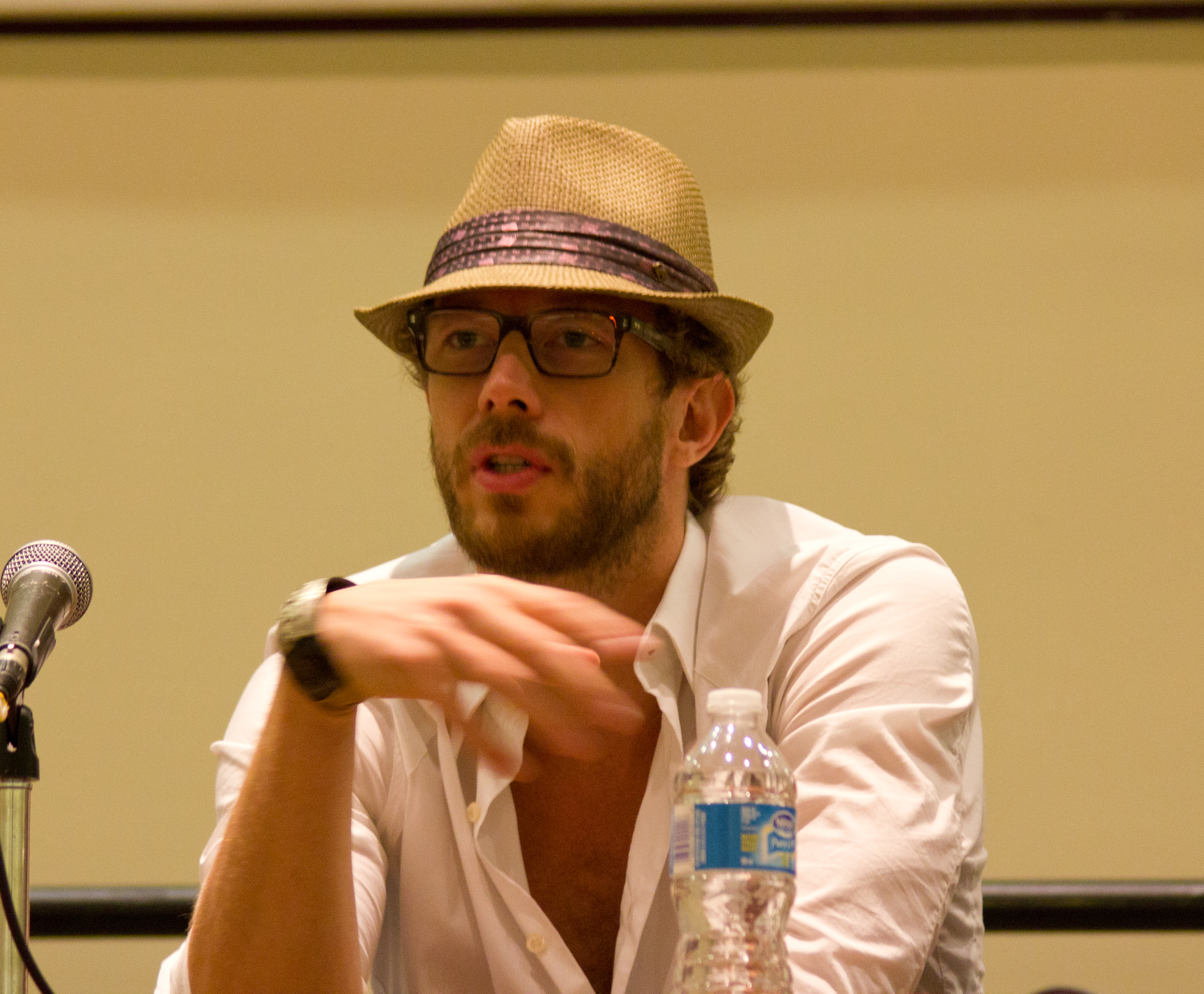 Actor Kristen Holden-Ried at a Fan Expo session on the show Lost Girl